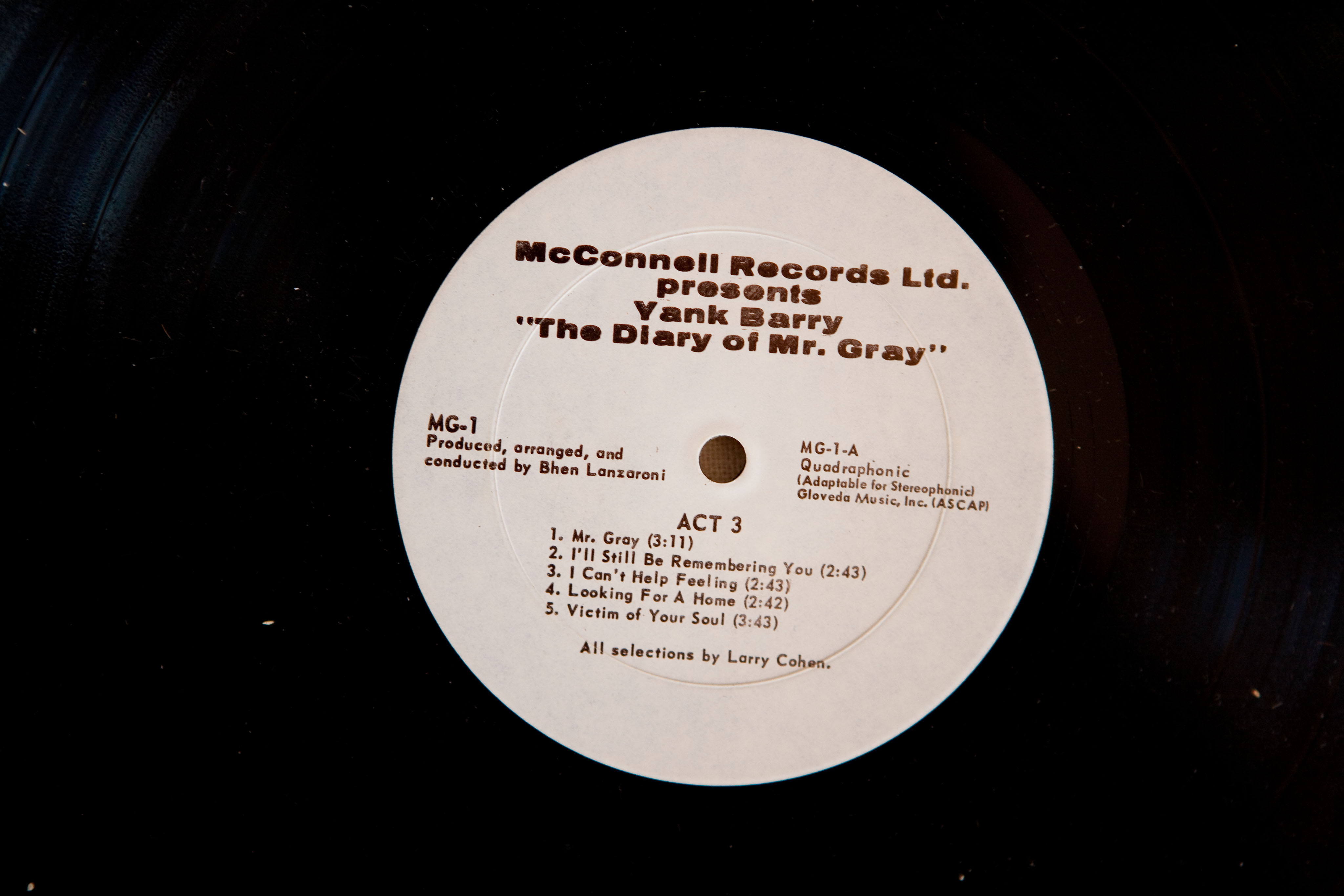 Quadraphonic-Classic Forum, artist Ben Lanzarone (Dyna Voice – BASF) 1970